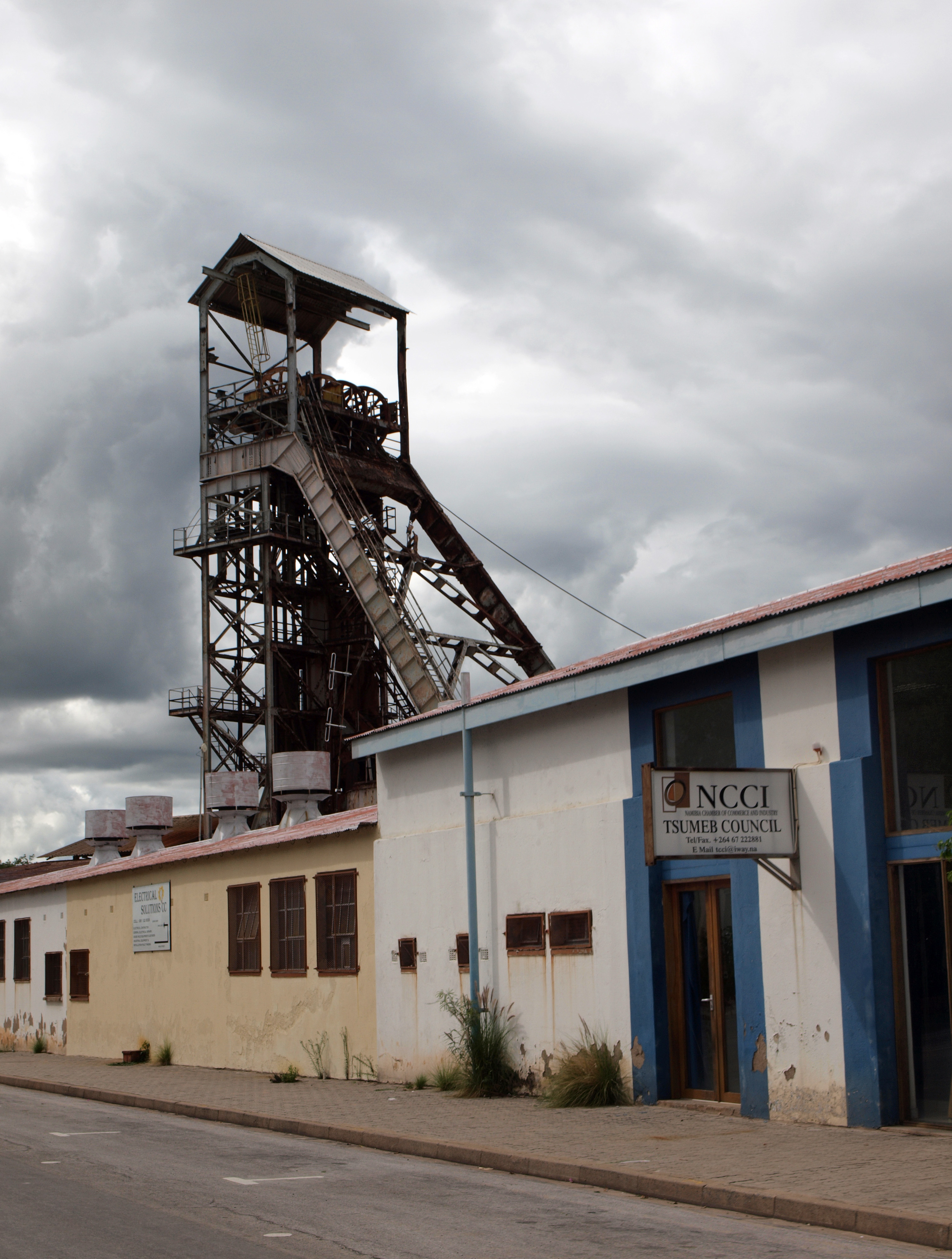 Nabimia, Tsumeb. Mine Tower.